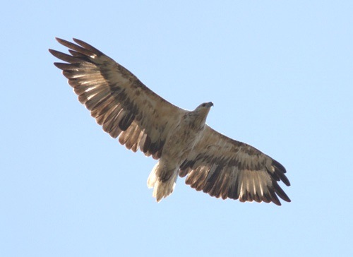 immature White-Bellied Sea-Eagle overhead